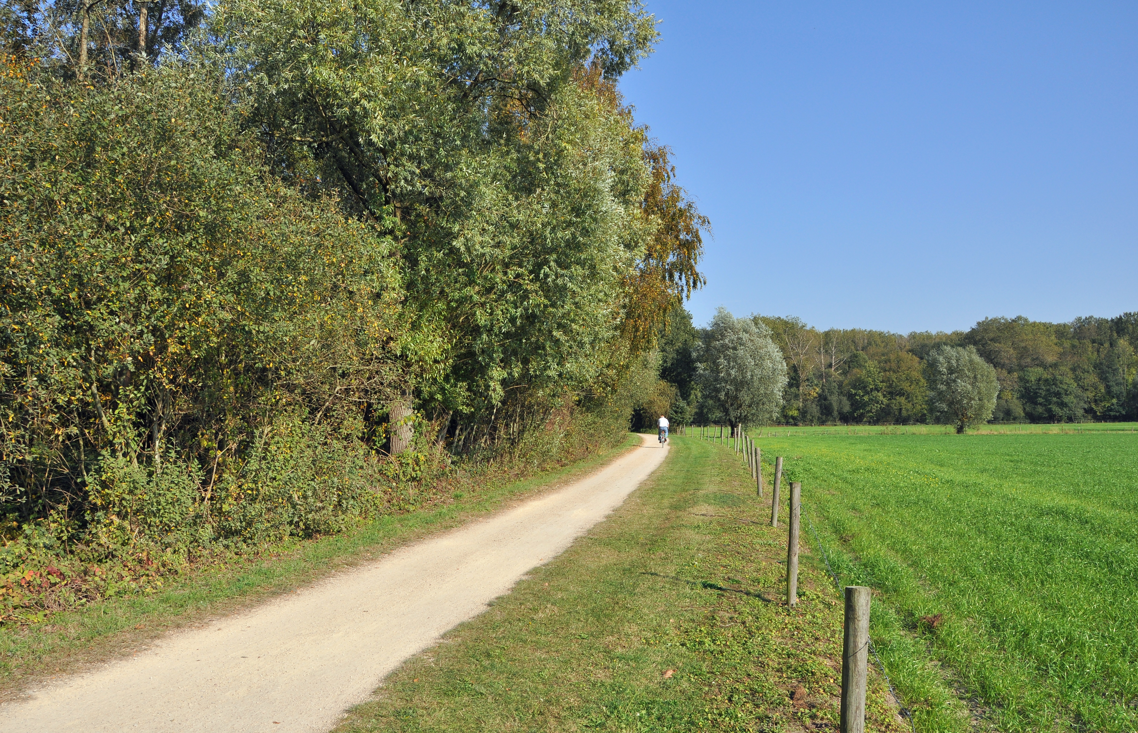 Broken up section of railway line #58 (Bruges-Maldegem-Eeklo-Ghent), now bicycle trail Abdijenroute, between Steenbrugge and Assebroek (Bruges, Belgium)